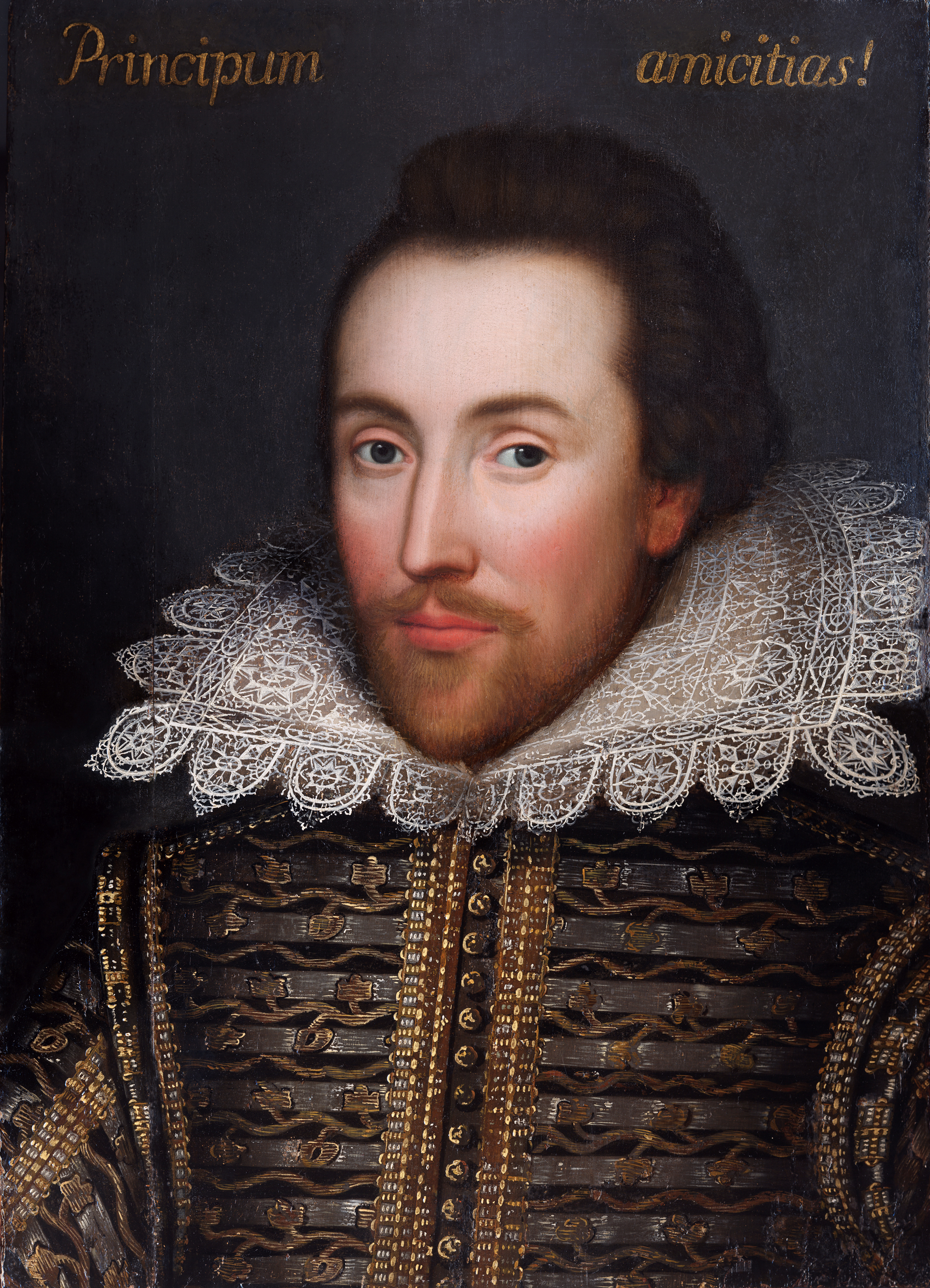 Portrait of Shakespeare - the so called Cobbe portrait - authenticity disputed!